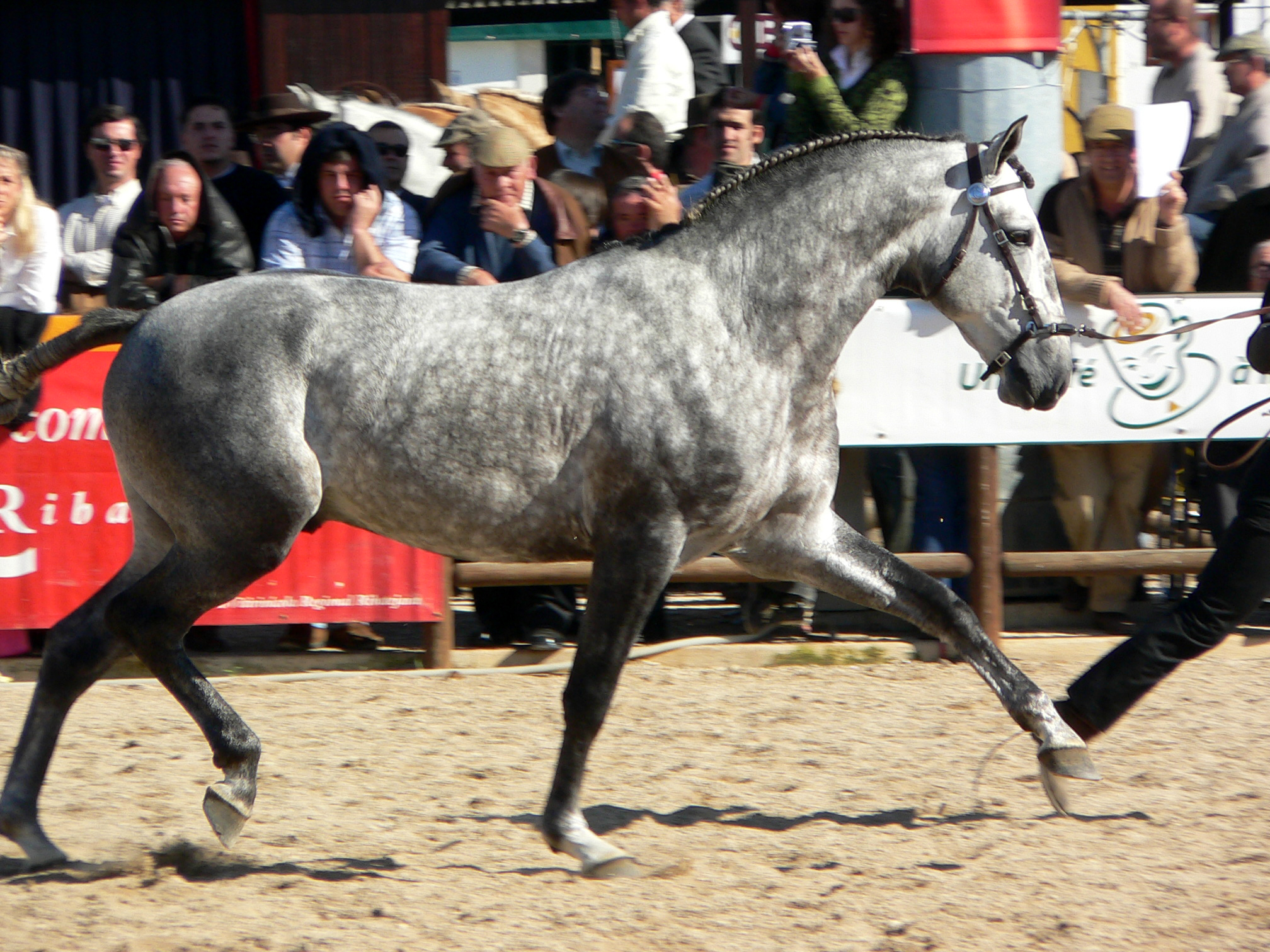 Lusitano horse